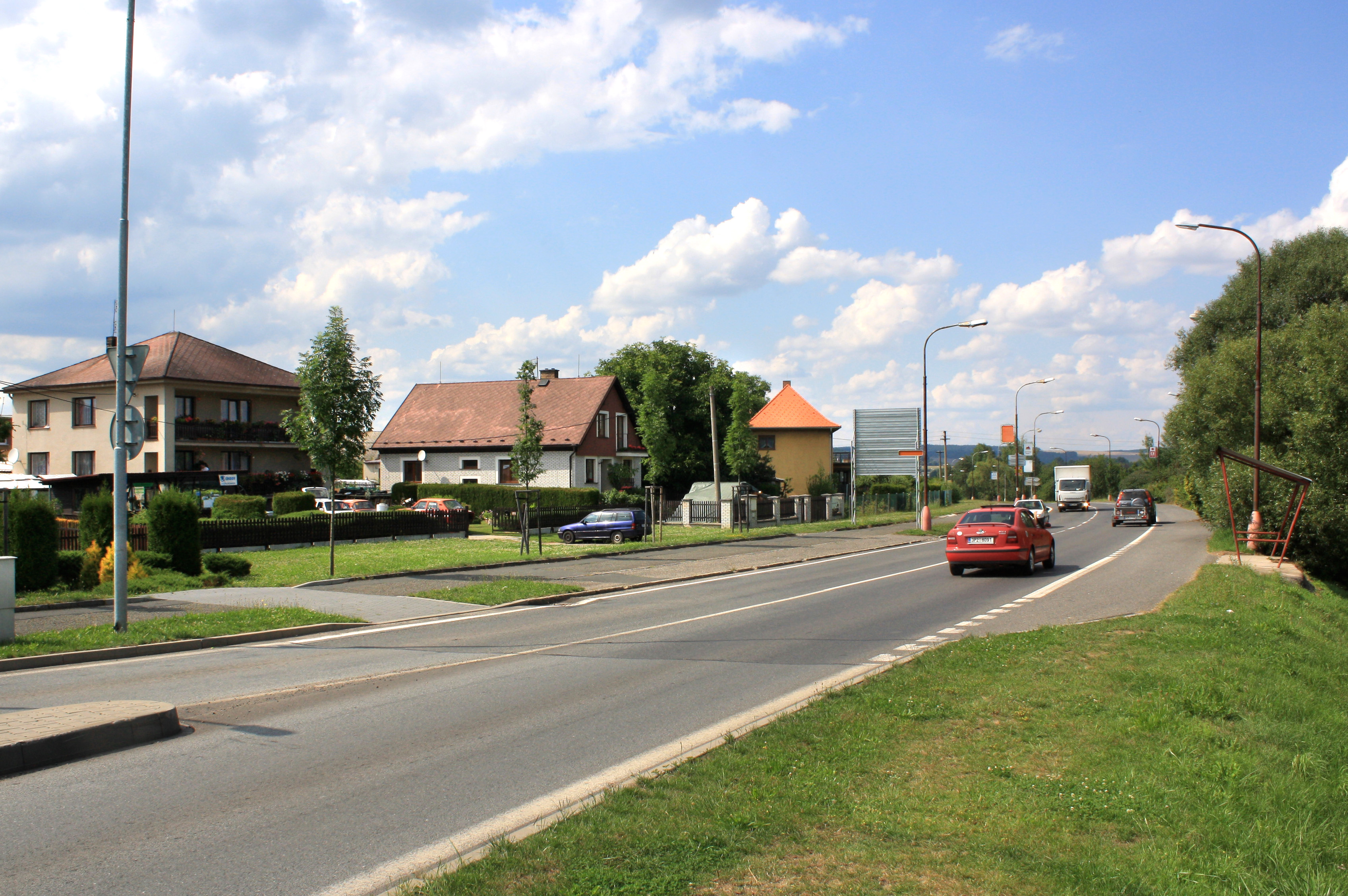 Šťáhlavská street in Plzeňské Předměstí, part of Rokycany, Czech Republic